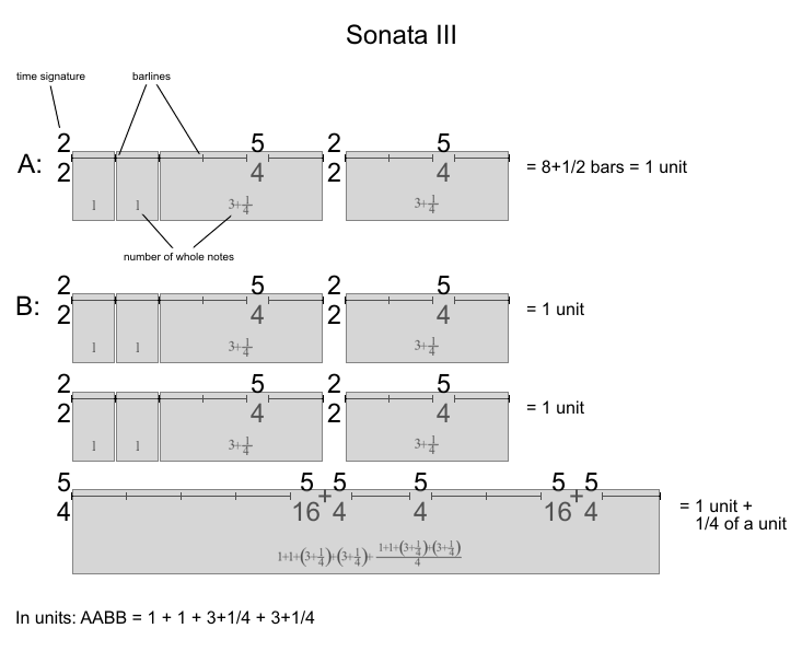 Graph explaining the structural proportions in Sonata III from John Cage's Sonatas and Interludes